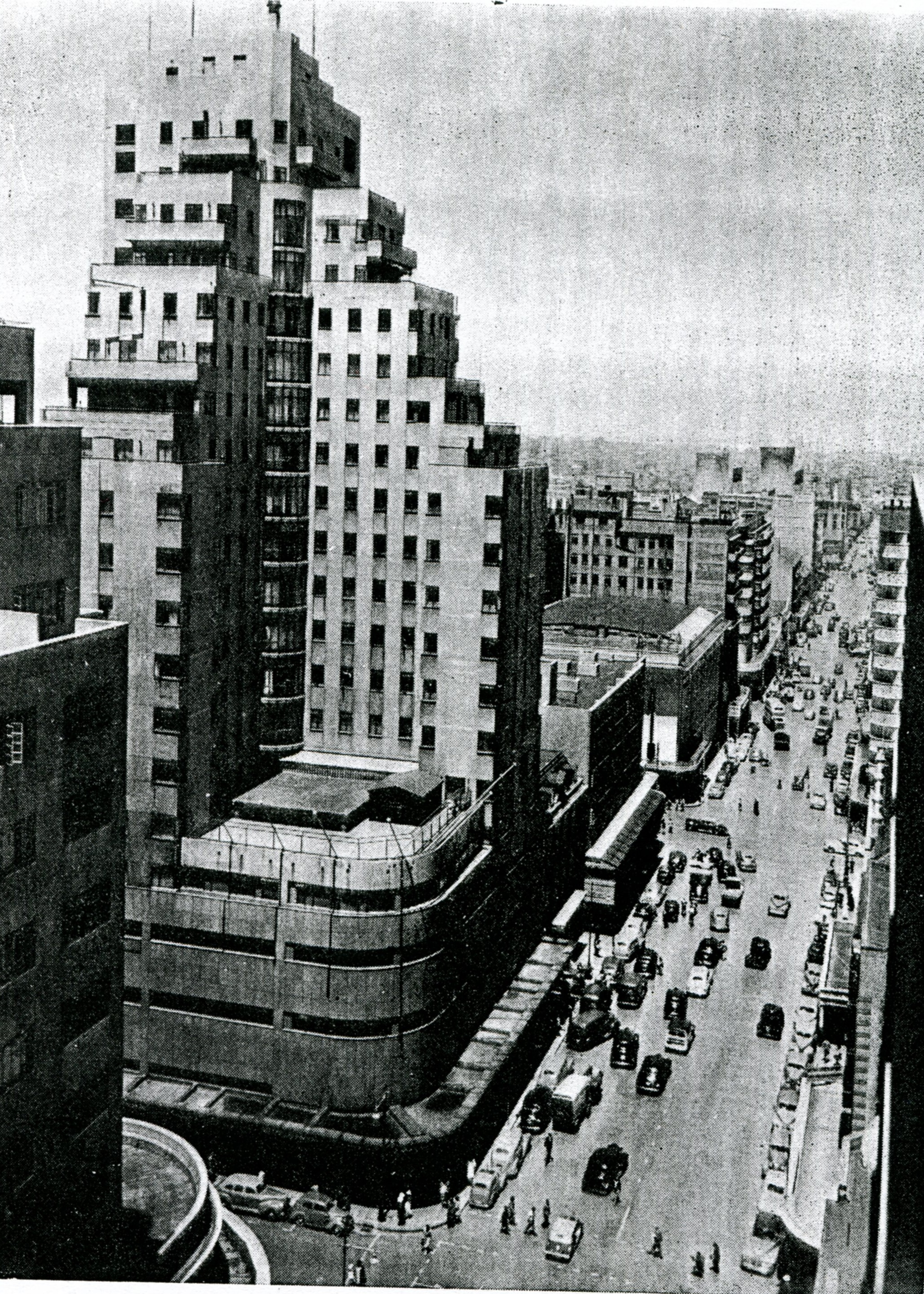 The Ansteys Building is an art deco building in the City of Johannesburg. It was built in 1935 and designed by Emley and Wiliamson. these pictures and documents were donated by the Johannesburg Heritage Foundation through the Joburgpedia project for use in Wikimedia and its sister projects